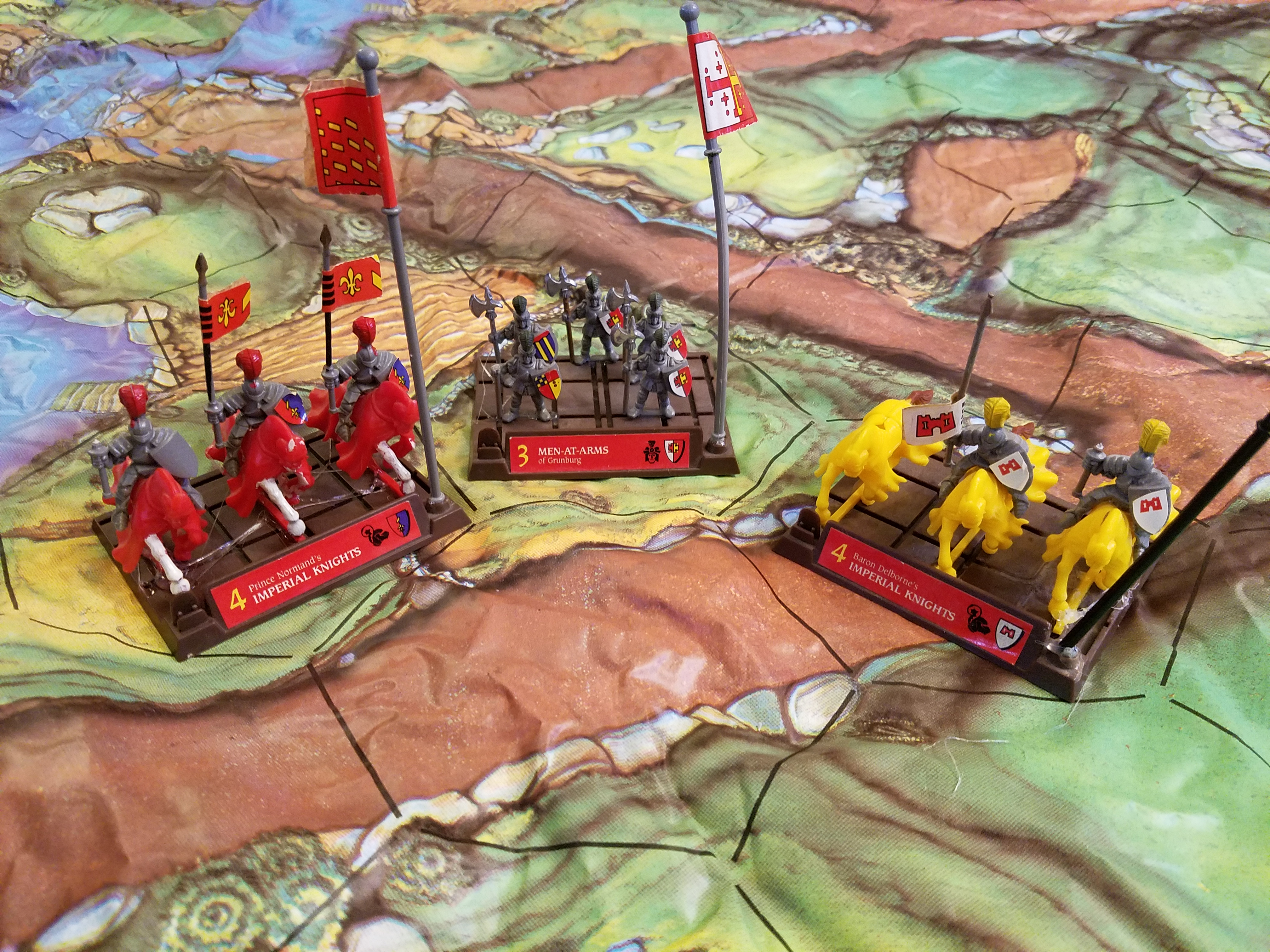 Knight minatures from Battlemasters Boardgame